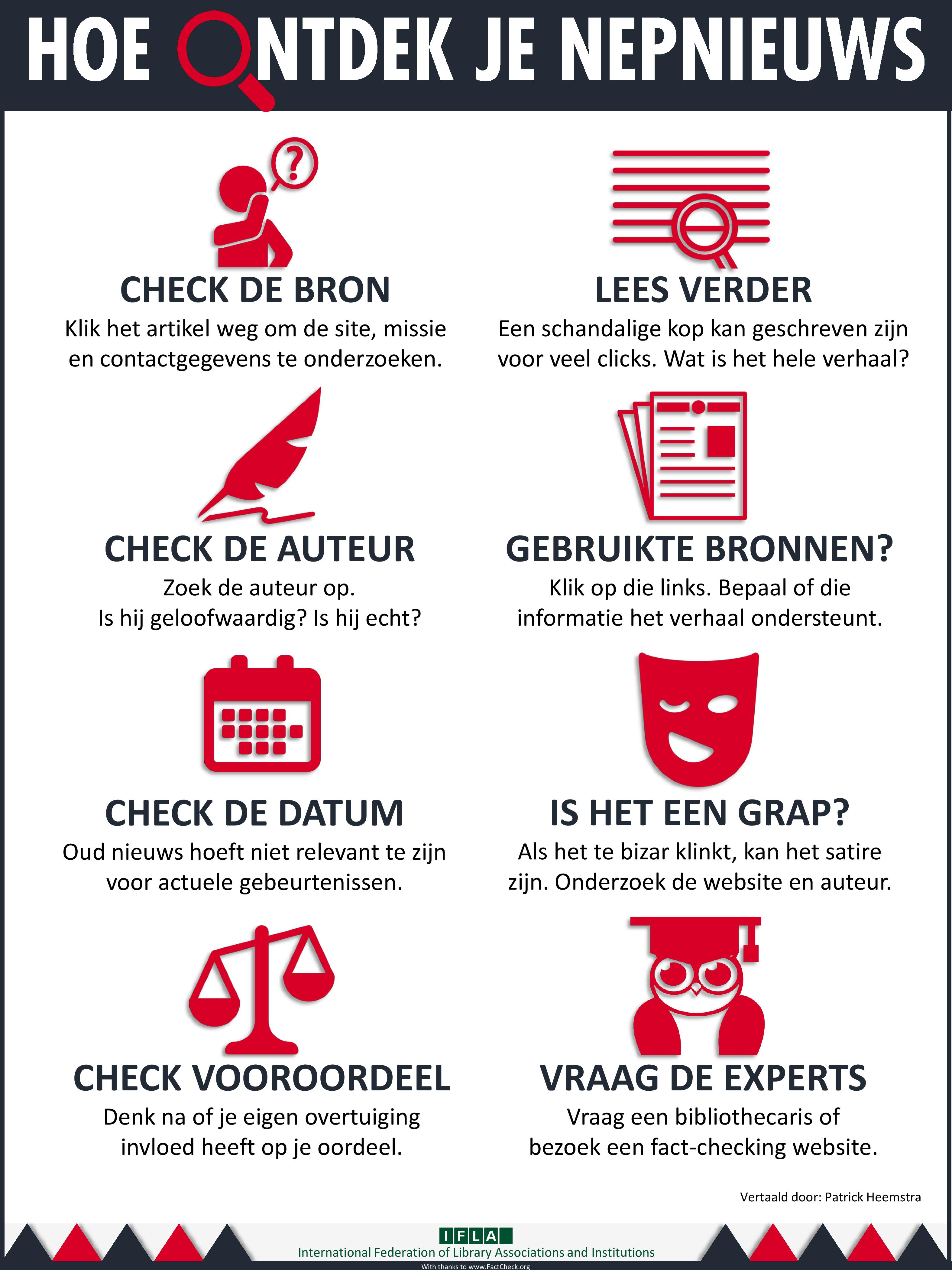 Dutch translation of IFLA infographic "How to Spot Fake News" in JPG format.